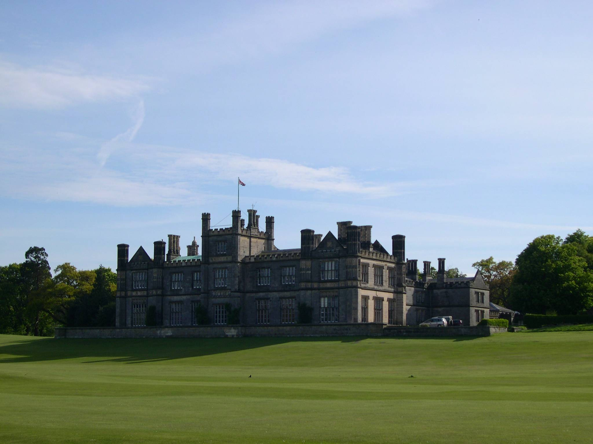 Dalmeny House, near Edinburgh, Scotland.